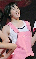 By Danny Choo - View more at